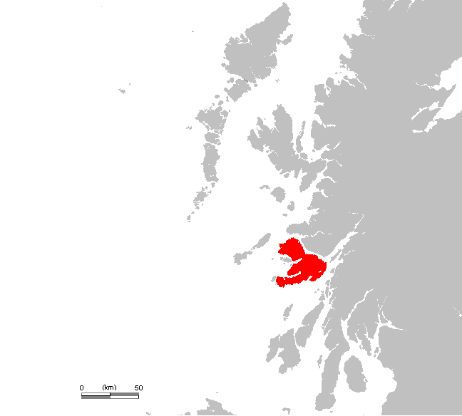 UK Mull.PNG (Scotland, Hebrides)